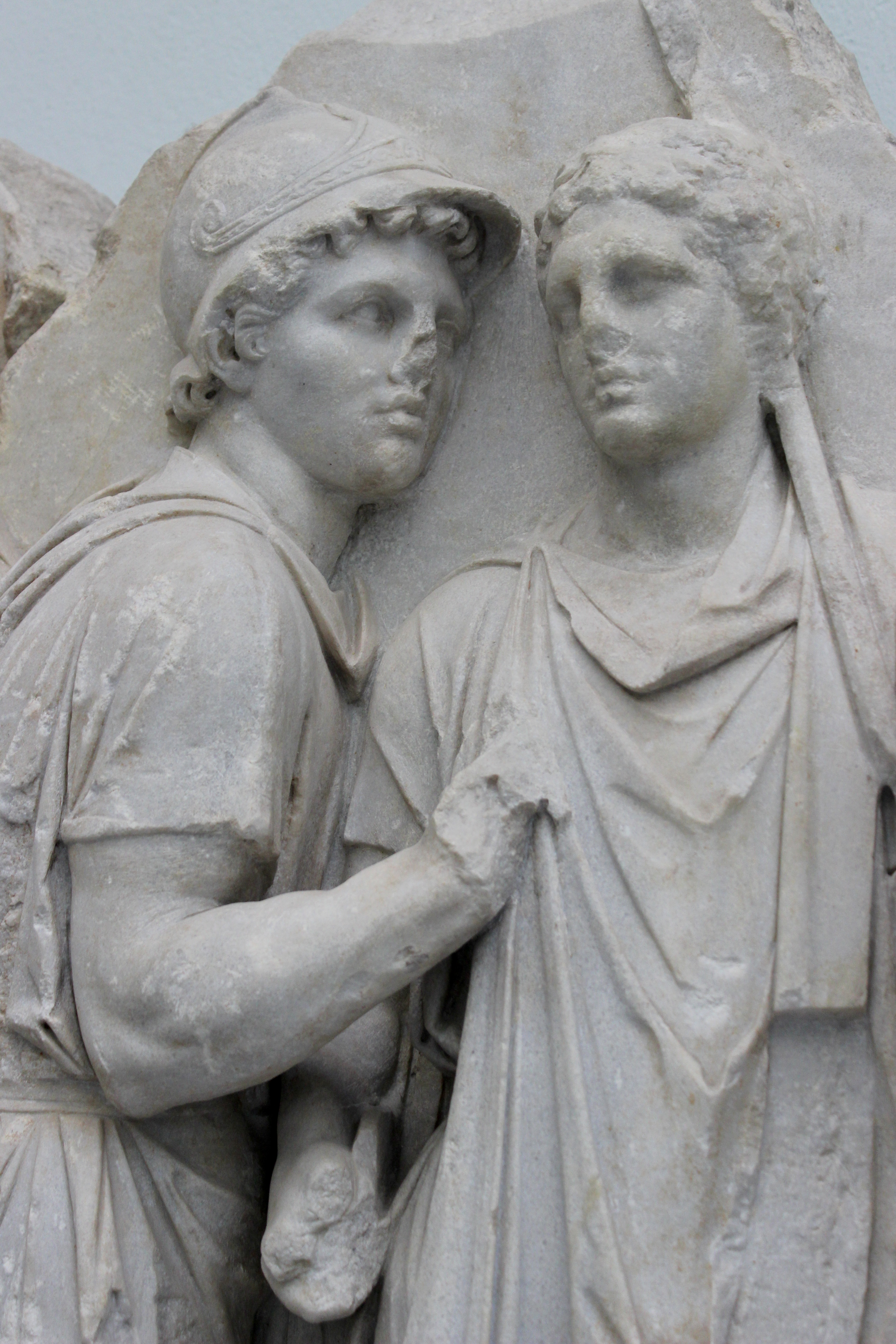 Two male attendants standing near Telephus. Panel 16 from the frieze "Telephus receives weapons from Auge". Full frieze here Panels 16+17 - Telephus receives weapons from Auge. Pergamon Altar